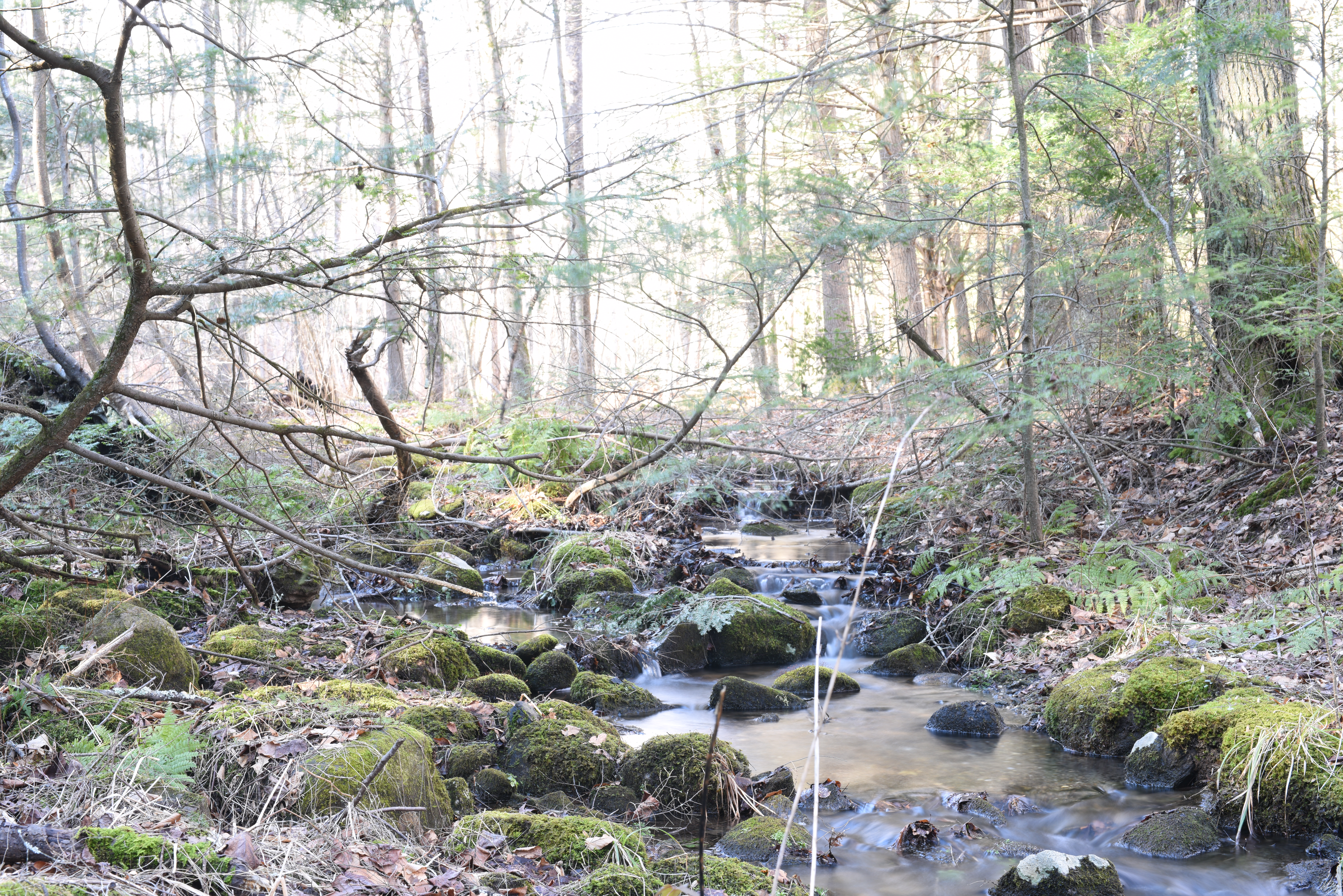 Audubon Society, long exposure, Southbury, CT.